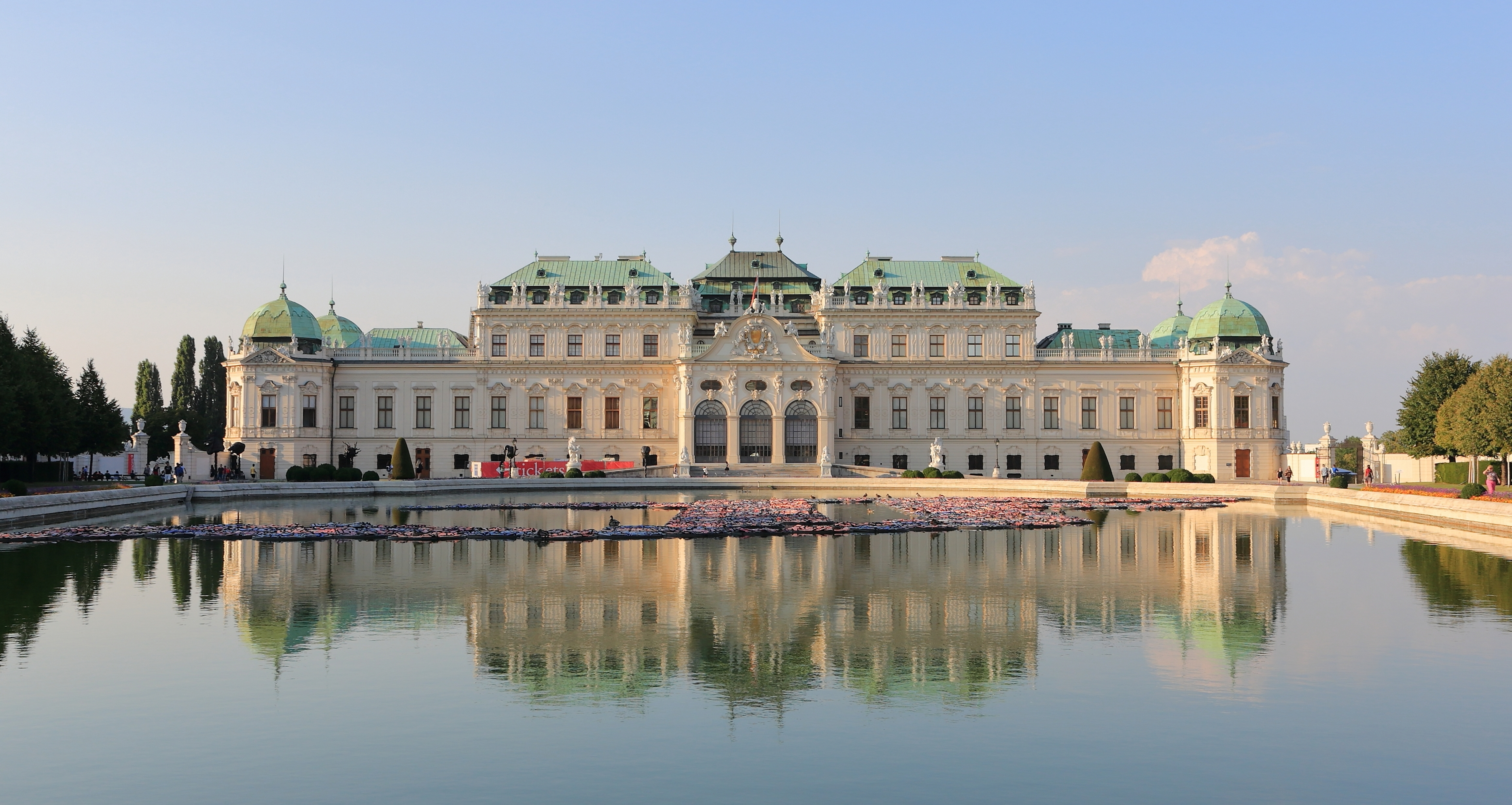 The Belvedere is a historic building complex in Vienna, Austria, consisting of two baroque palaces (the Upper (seen here) and Lower Belvedere), the Orangery, and the Palace Stables. The buildings are set in a baroque park landscape in the 3rd district of the city, south-east of its centre. It houses the Belvedere museum. The grounds are set on a gentle gradient and include decorative tiered fountains and cascades, baroque sculptures, and majestic wrought iron gates. The palace complex was built as a summer residence for Prince Eugene of Savoy.